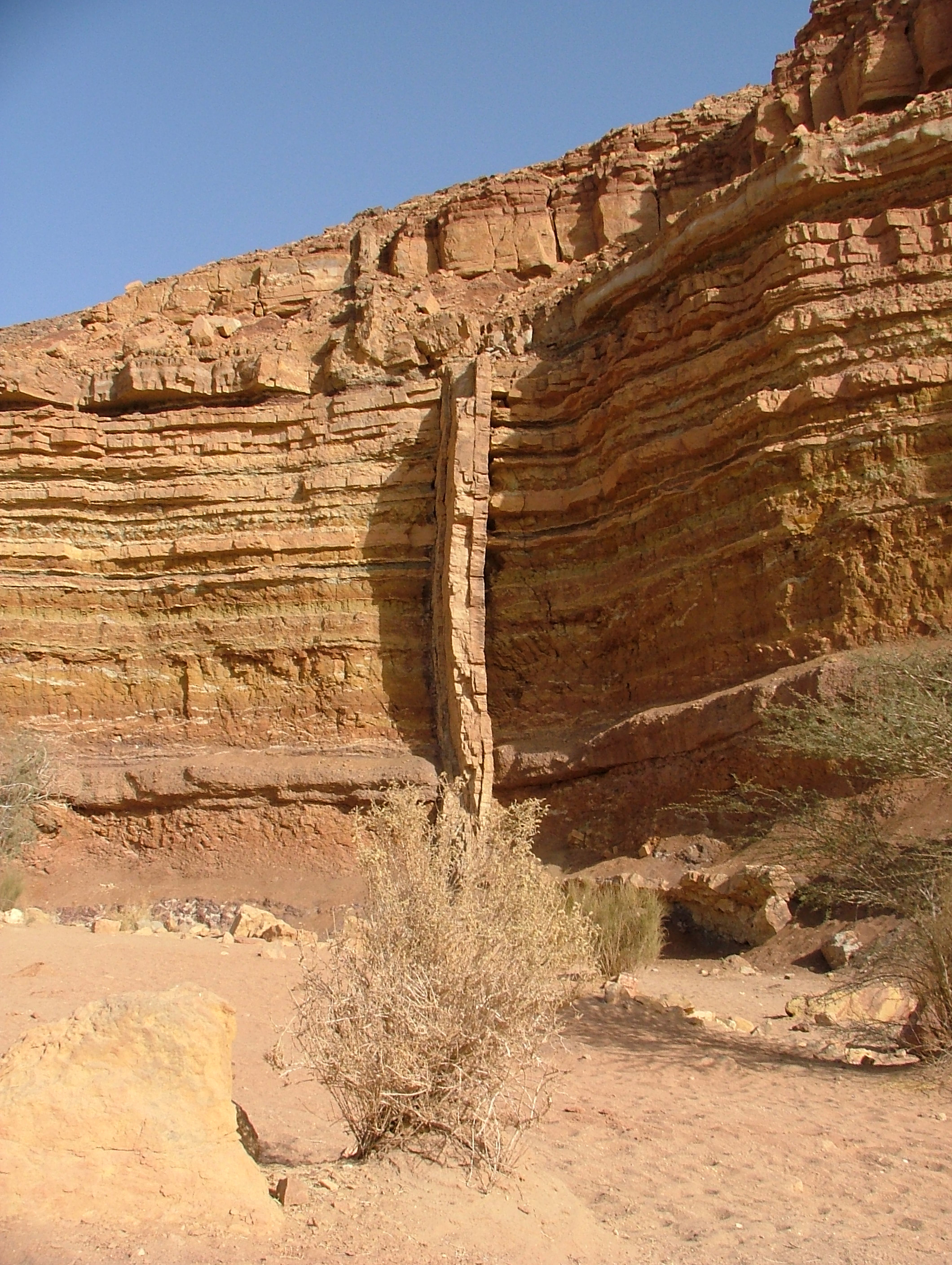 Rock formation in Machtesh Ramon